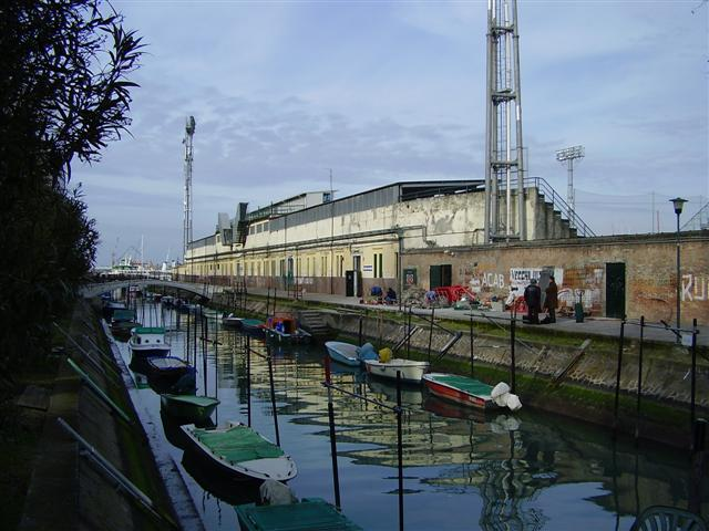 Picture of the Venezia football stadium taken in February 2006.